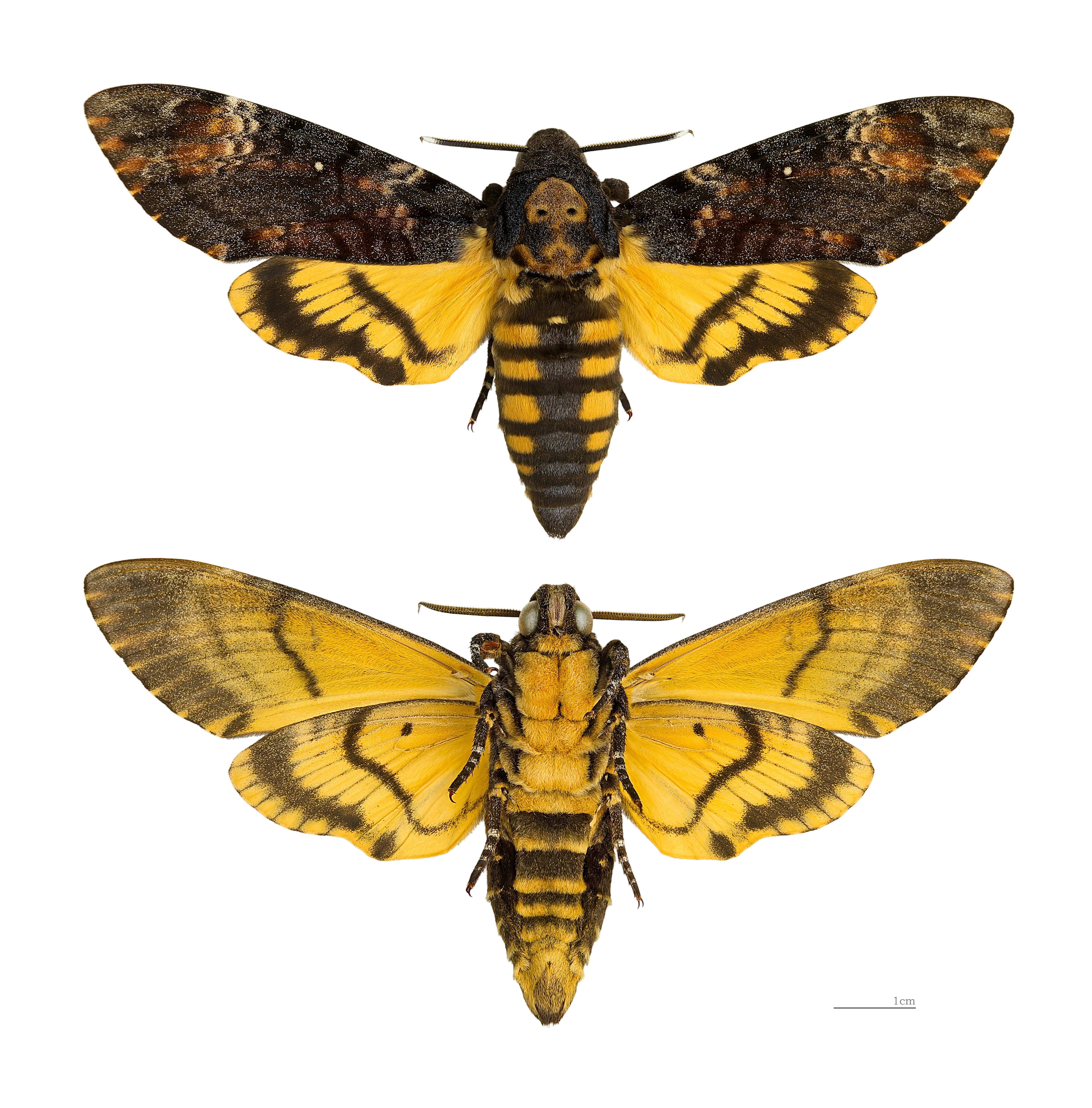 Death's-head Hawk moth - Two views of same specimen Collection of the Mathematician Laurent Schwartz